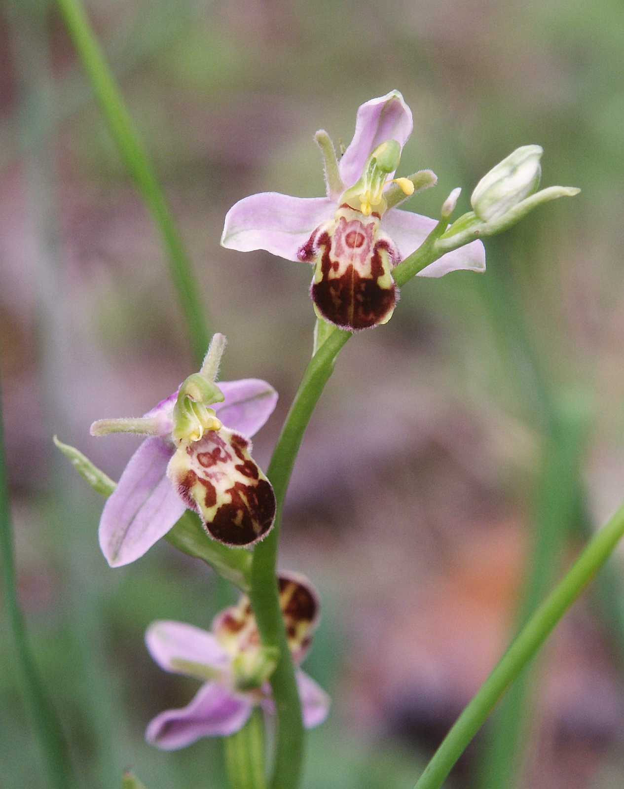 Ophrys apifera, Hohenlohe, Germany